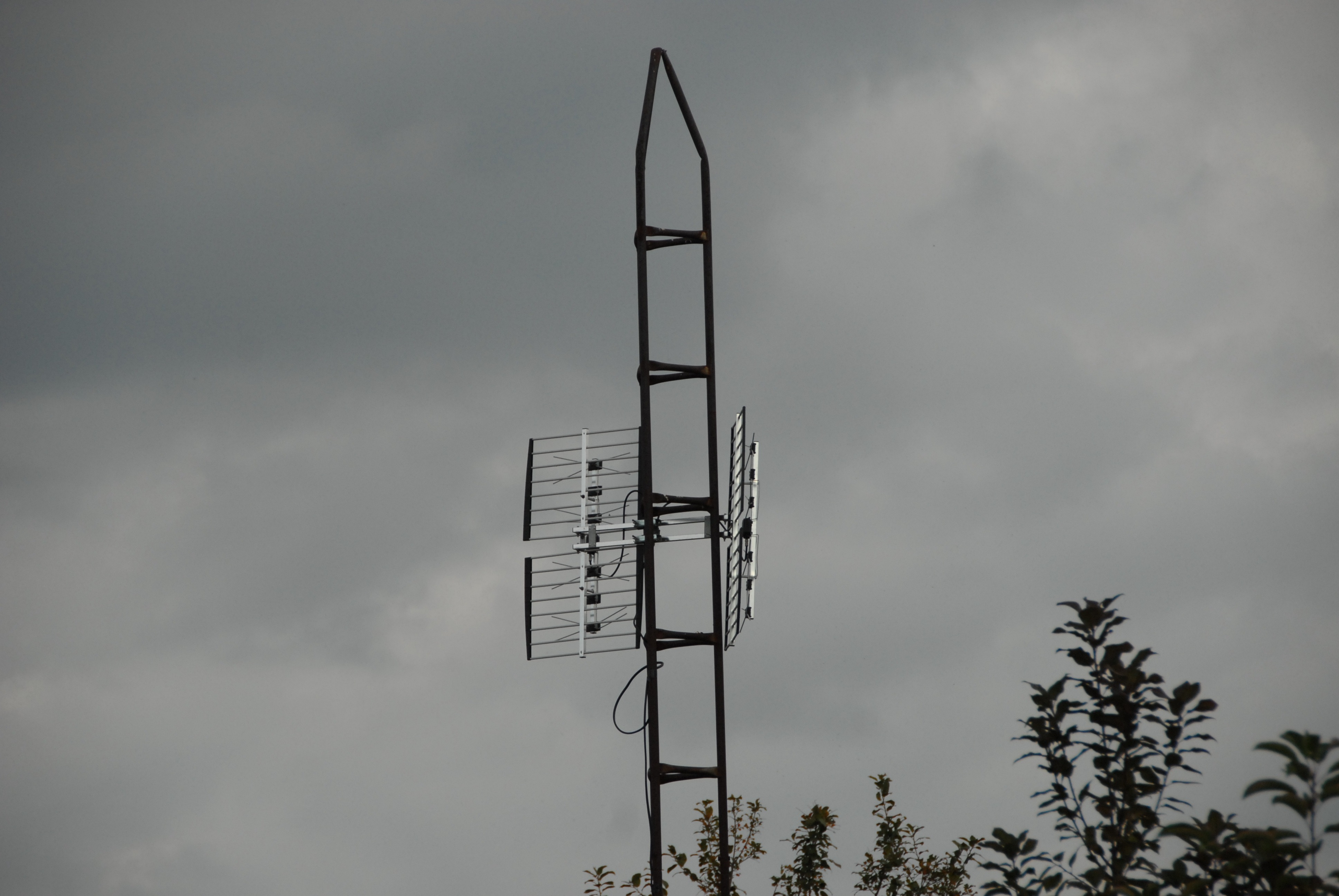 Masts that carried VHF/UHF antennas from the 1970s and 80s had to be very strong in order to support the large antennas and their rotors. This made them difficult to take down when the owners switch to cable or satellite. More recently many have found a second life as masts for new generation antennas, like this example. With the transition to digital television in the 2000s, most of the VHF channels were abandoned and moved to UHF. Additionally, UHF channels from 51 to 81 were also abandoned. This greatly reduced the total range of frequencies being used and allowed new antenna designs to be introduced, with the reflective array antenna, like this example, becoming the most popular. It is much smaller than the Yagi-Uda designs formerly used for UHF, as well as being somewhat less directional. This particular example is an "8-bay" design, with eight bow-tie dipole antennas placed in two vertical groups of four each in front of two reflectors. The structure holding the two together, and acting as the mounting point to the mast, allows the two halves to be rotated in respect to each other. This is normally sold as a feature allowing signals from two different locations to be picked up, but in practice this rarely works in a simple fashion due to the complexity of the phase relationships between the two sides.